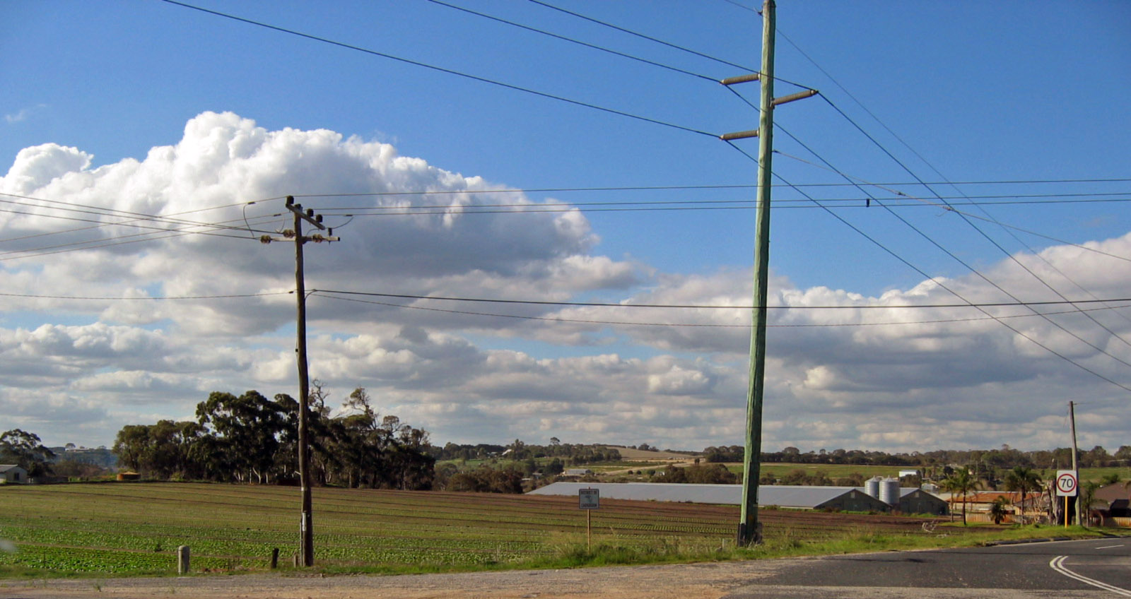 The suburb of Carabooda in Perth, Western Australia, taken from Wanneroo and Karoborup Roads.